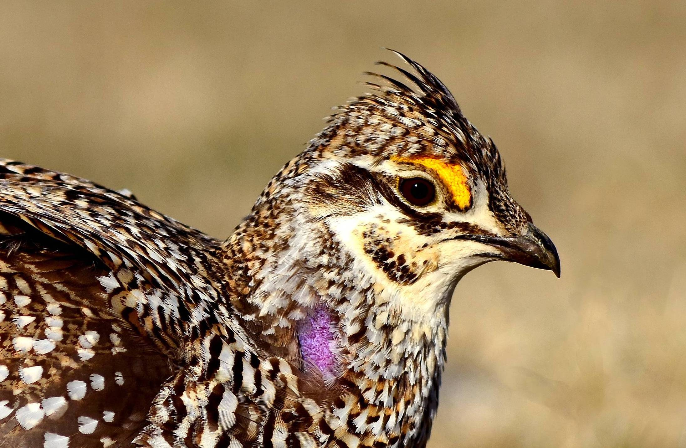 Credit: Rick Bohn